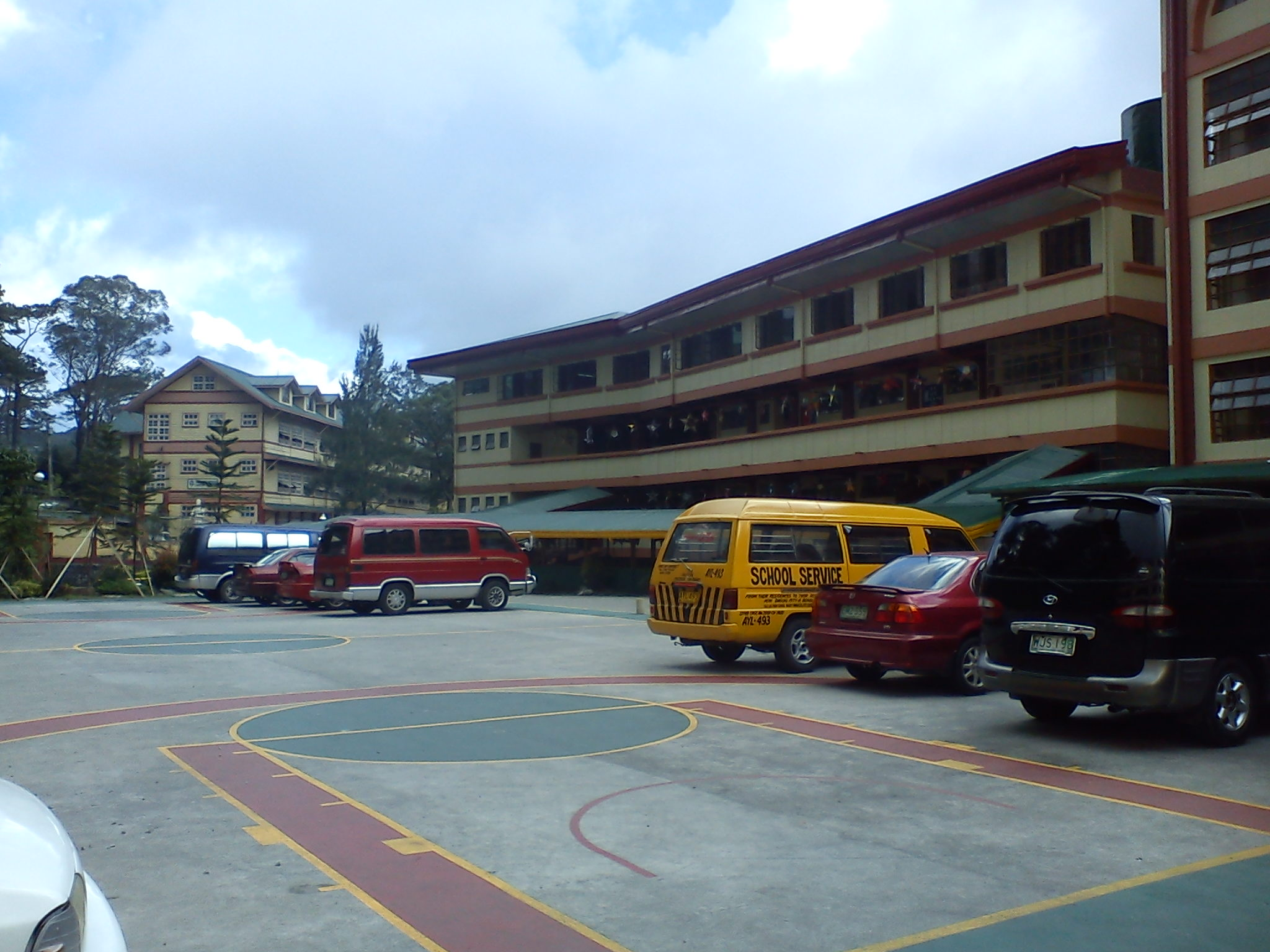 Junior High Campus Navy Base